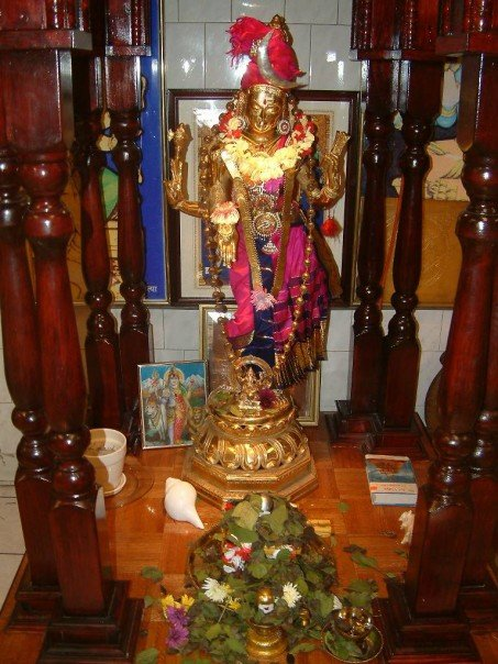 pic of ardinary